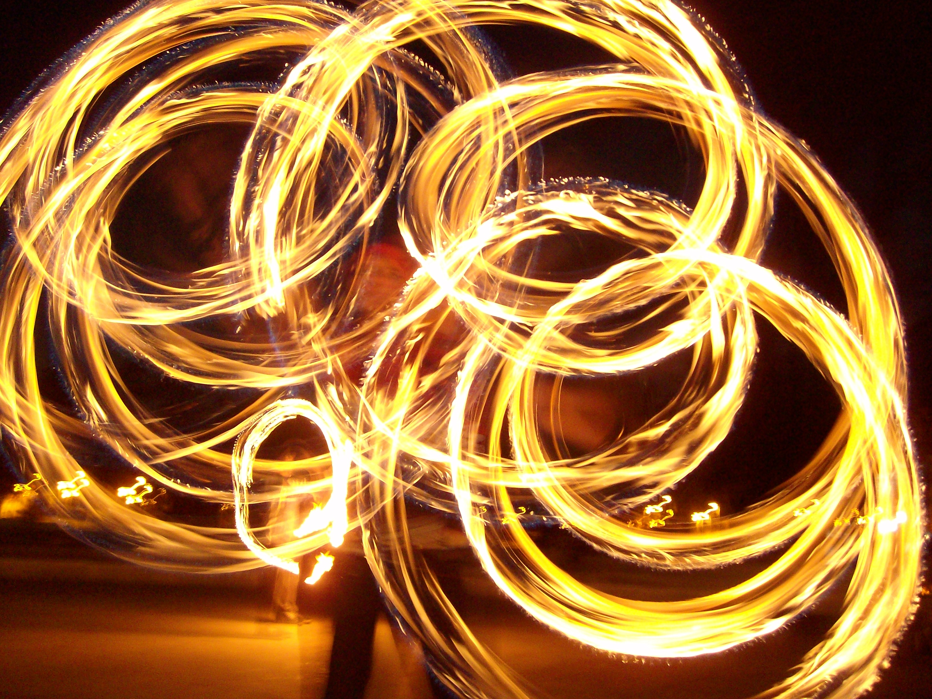 Fire poi